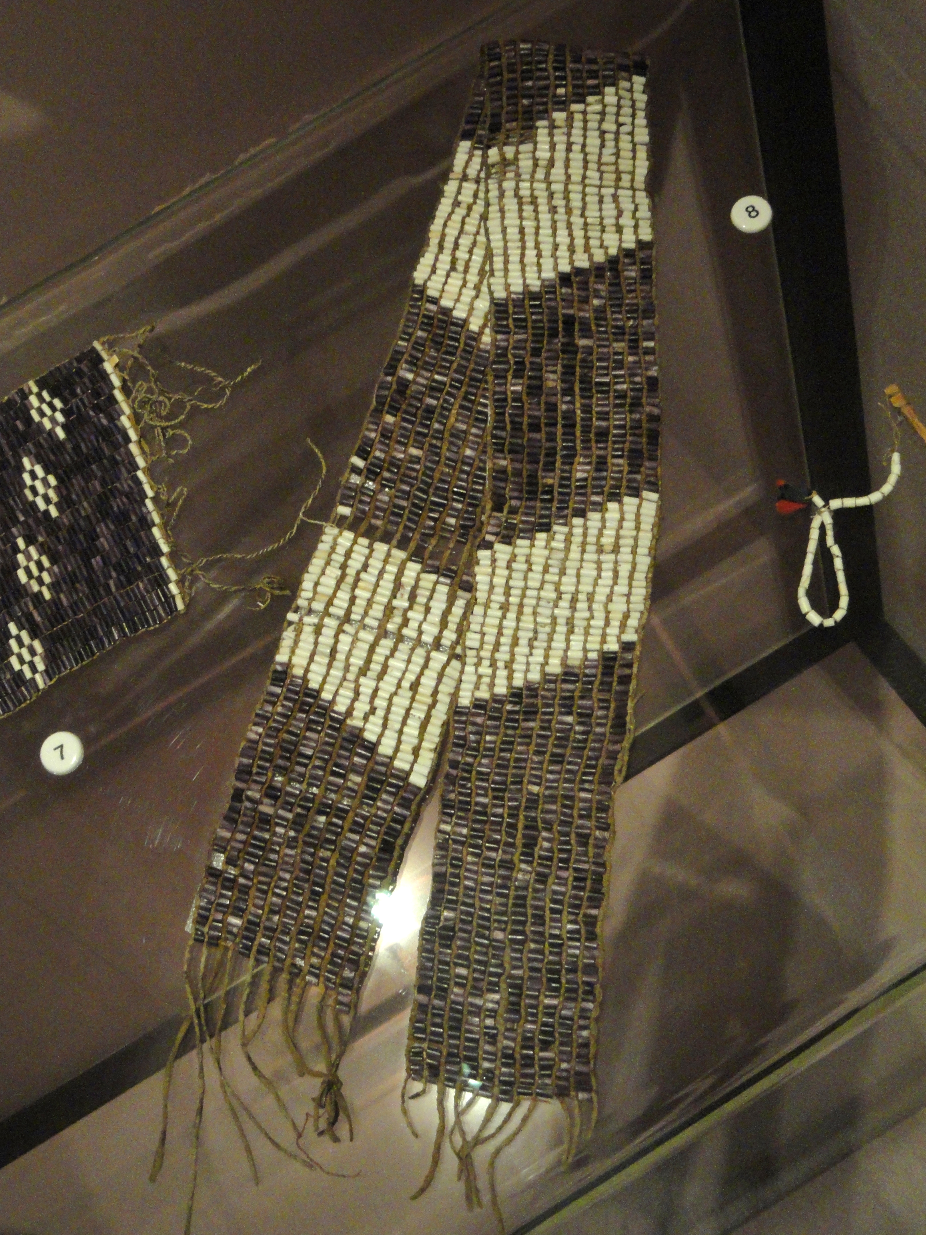 Wampum belt, Iroquois and Algonkian, commemorating peace treaty in 17th century. Exhibit from the Native American Collection, Peabody Museum, Harvard University, Cambridge, Massachusetts, USA. Photography was permitted without restriction; exhibit is old enough so that it is in the public domain.